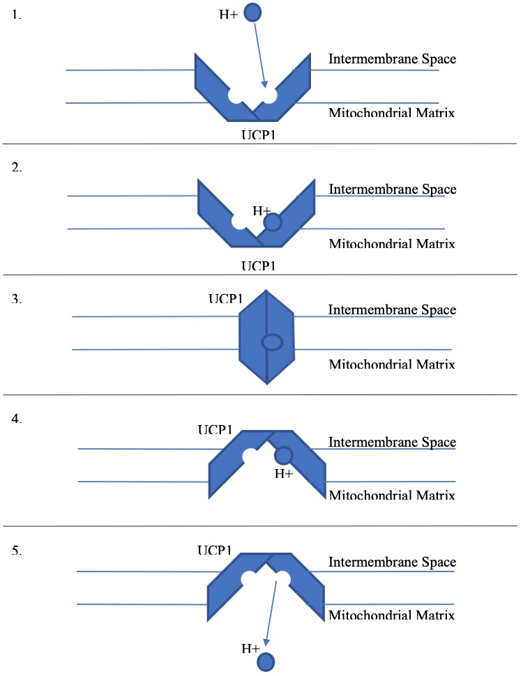 The salt bridges at the cytoplasmic side of the protein close after binding a substrate, in this case H+, sealing the protein off from the inter membrane space. The protein's matrix side salt bridges release and the protein opens to the matrix and releases the substrate.